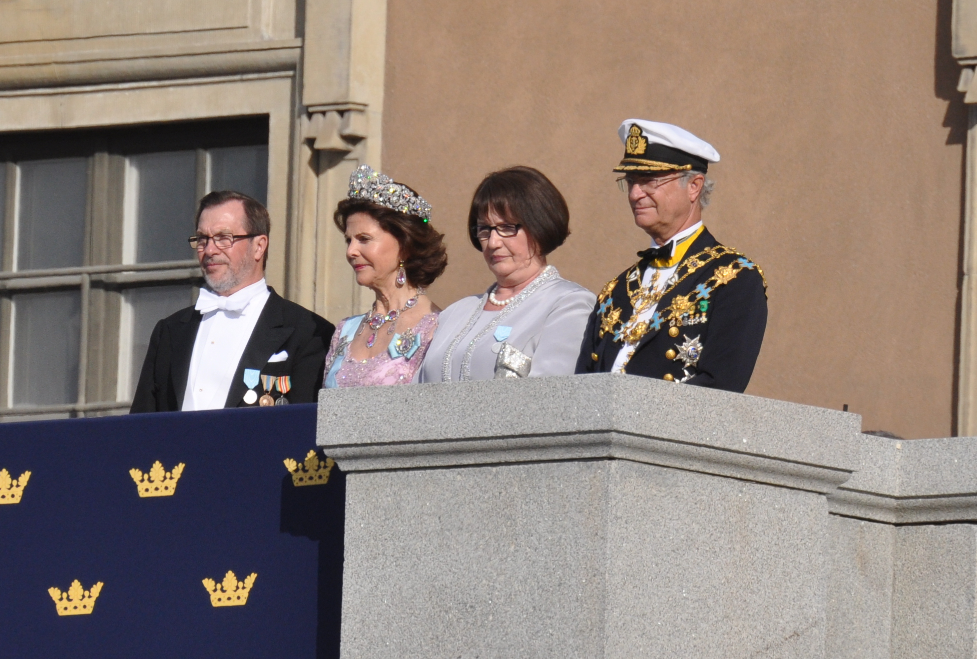 Wedding of Victoria, Crown Princess of Sweden, and Daniel Westling; Carl XVI Gustaf of Sweden and Queen Silvia of Sweden as well as Daniel's parents Olle and Eva Westling at Lejonbacken.